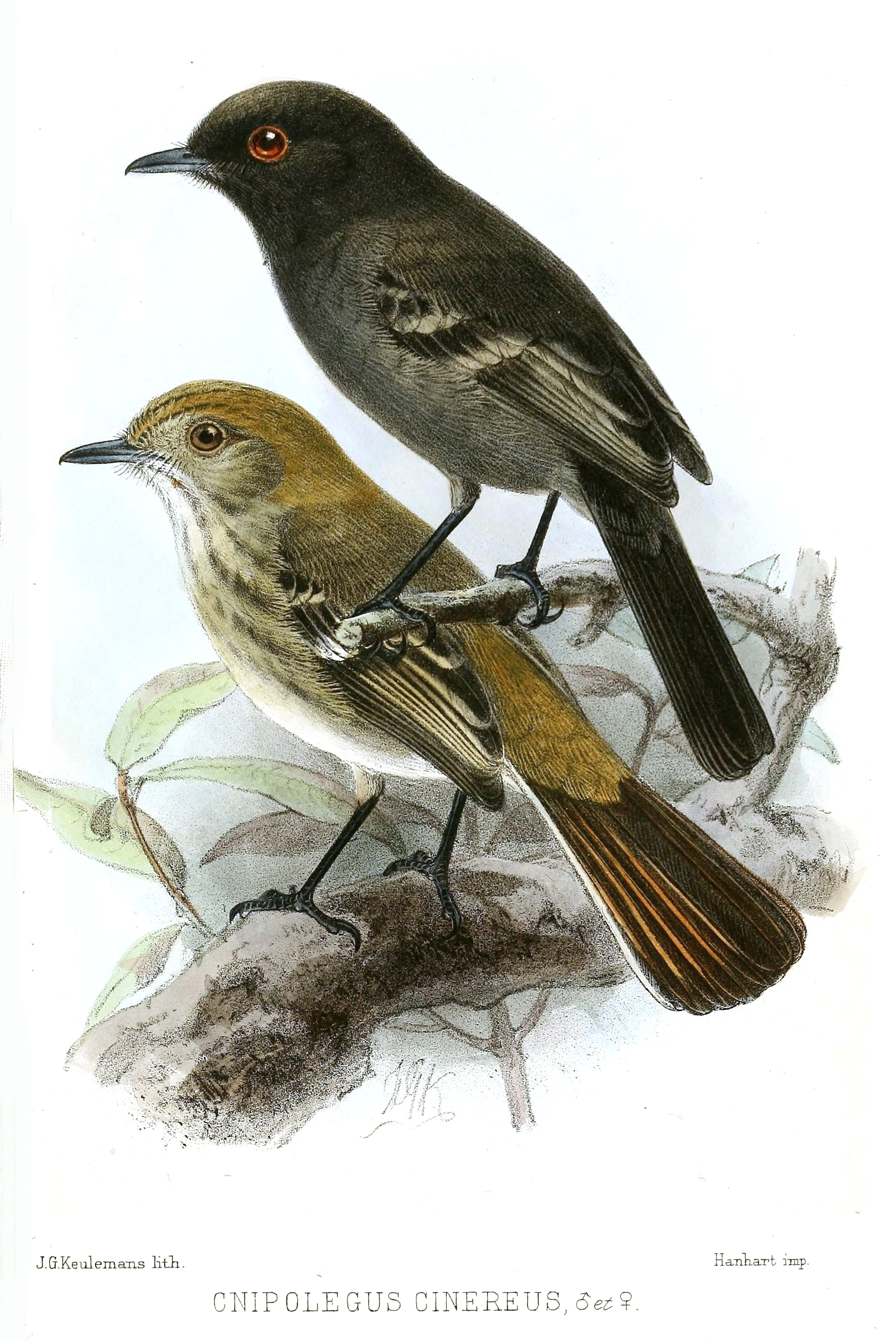 « Cnipolegus cinereus » = Knipolegus striaticeps (Cinereous Tyrant)